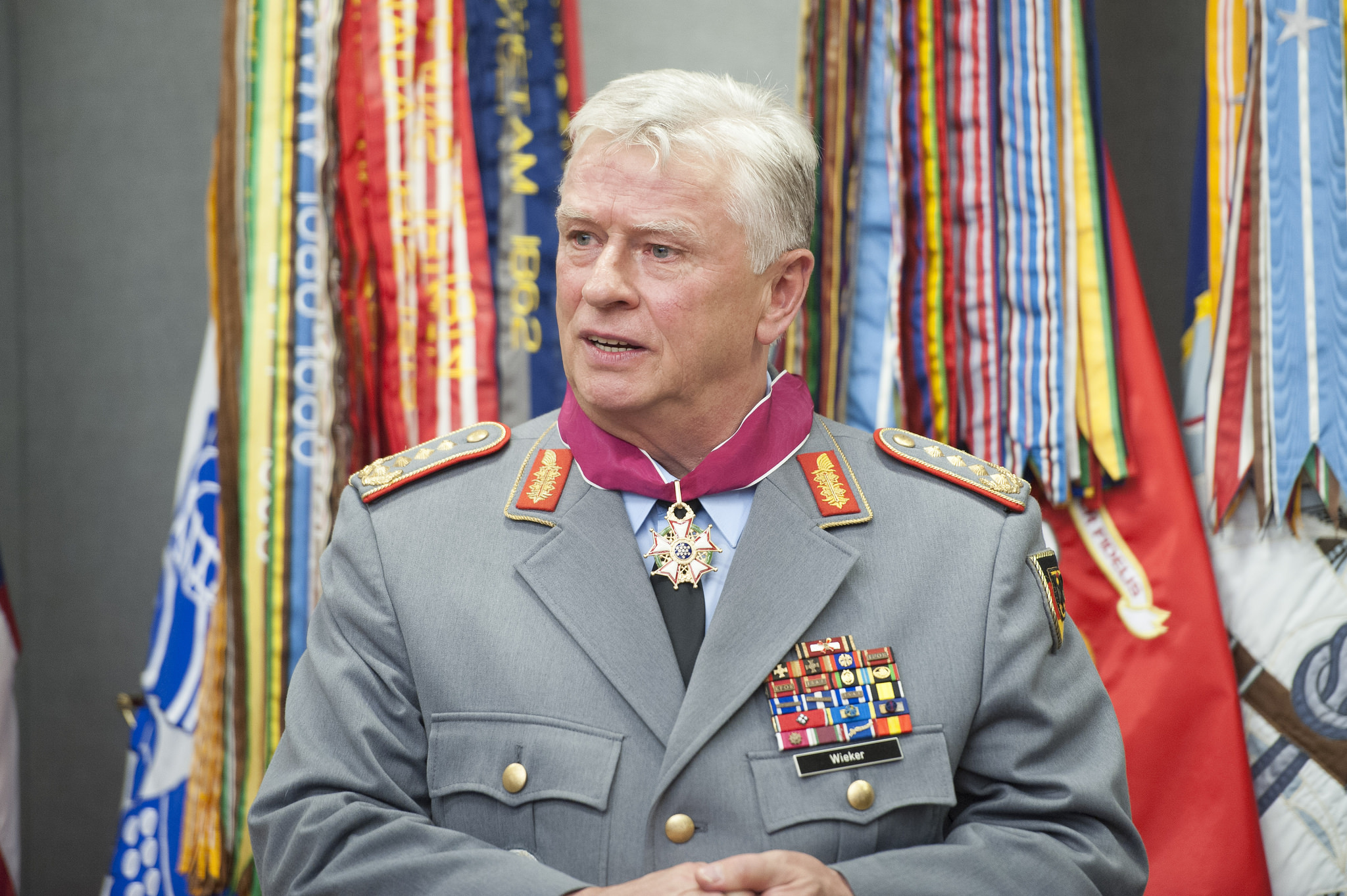 Chief of Staff of the German Armed Forces Gen. Volker Wieker speaks after receiving an award from 18th Chairman of the Joint Chiefs of Staff Army Gen. Martin E. Dempsey in the "Tank" at the Pentagon, June 23, 2015. (DoD photo by Mass Communication Specialist 1st Class Daniel Hinton/Released)